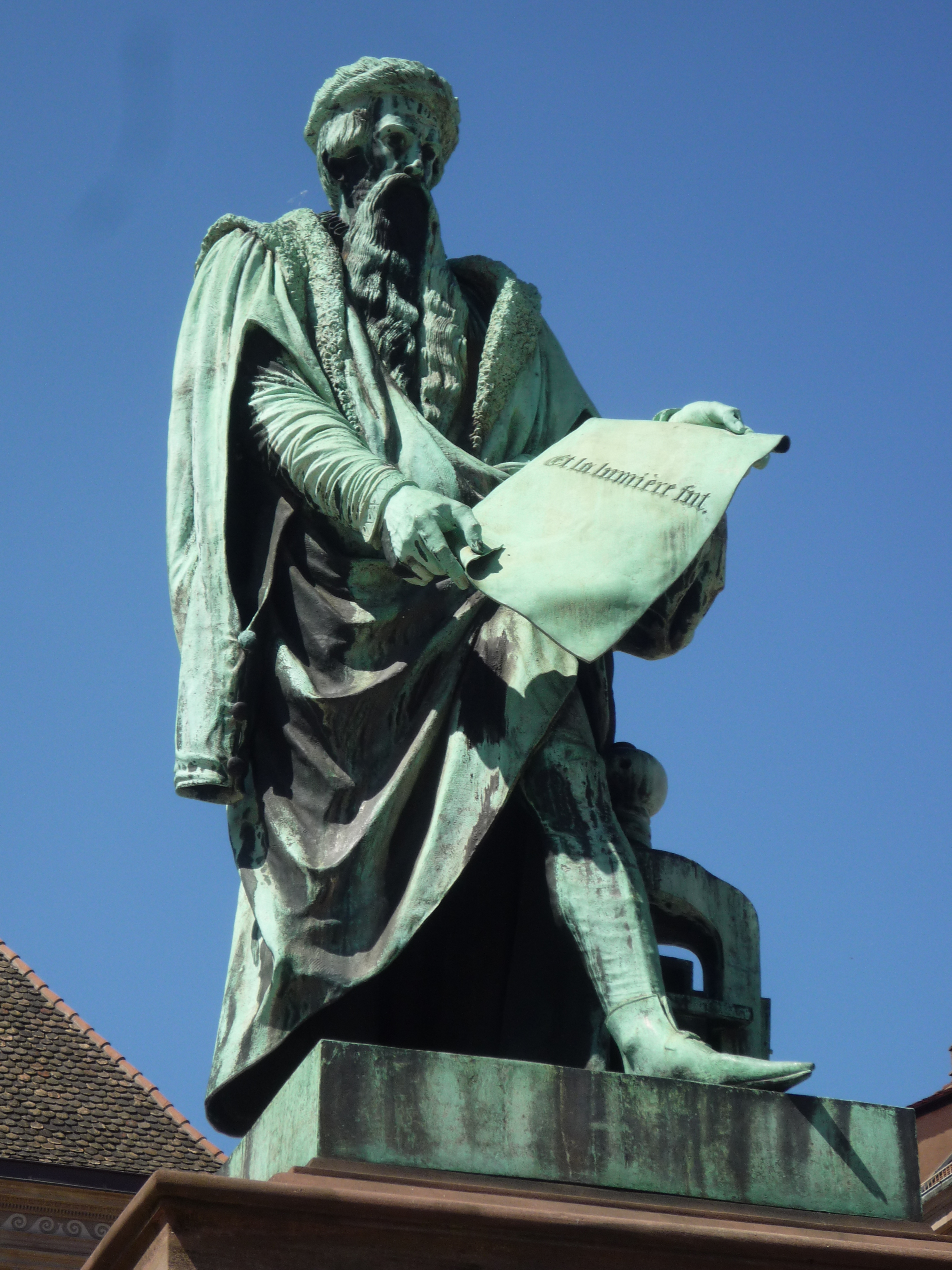 "Look upon my printed glory," Gutenberg gloats.